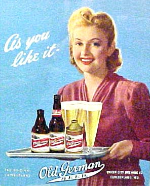 (anonymous, self-made Digital Photograph 2004) The Queen City Brewing Company (1901-1974) of Cumberland produced Old German Beer Premium Lager. In the 1970's Pittsburgh Brewing Company acquired the Queen City Brewing Company. At its peak Queen City brewery produced over 250,000 barrels of beer and ale a year.